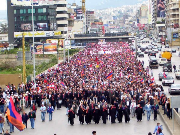 Picture of Armenians in Lebanon (numbered around 10 000) marching during the 91st anniversary of the Armenian Genocide.